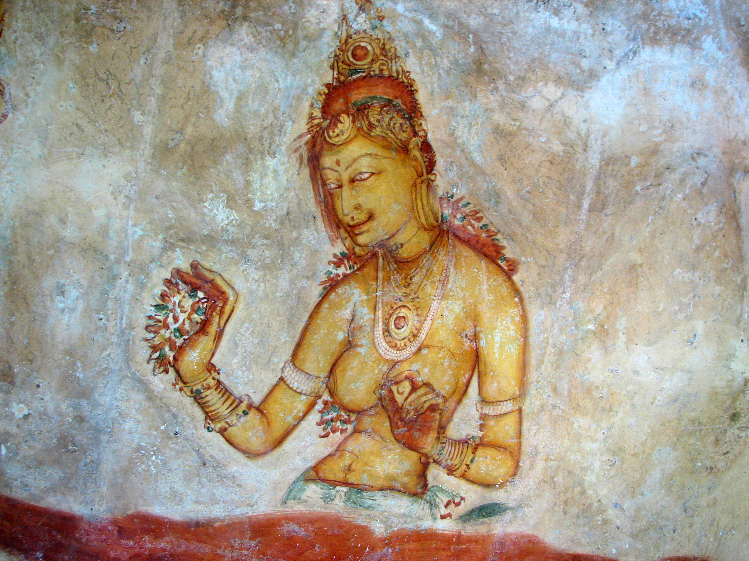 Sigiriya ladies, Sri Lanka